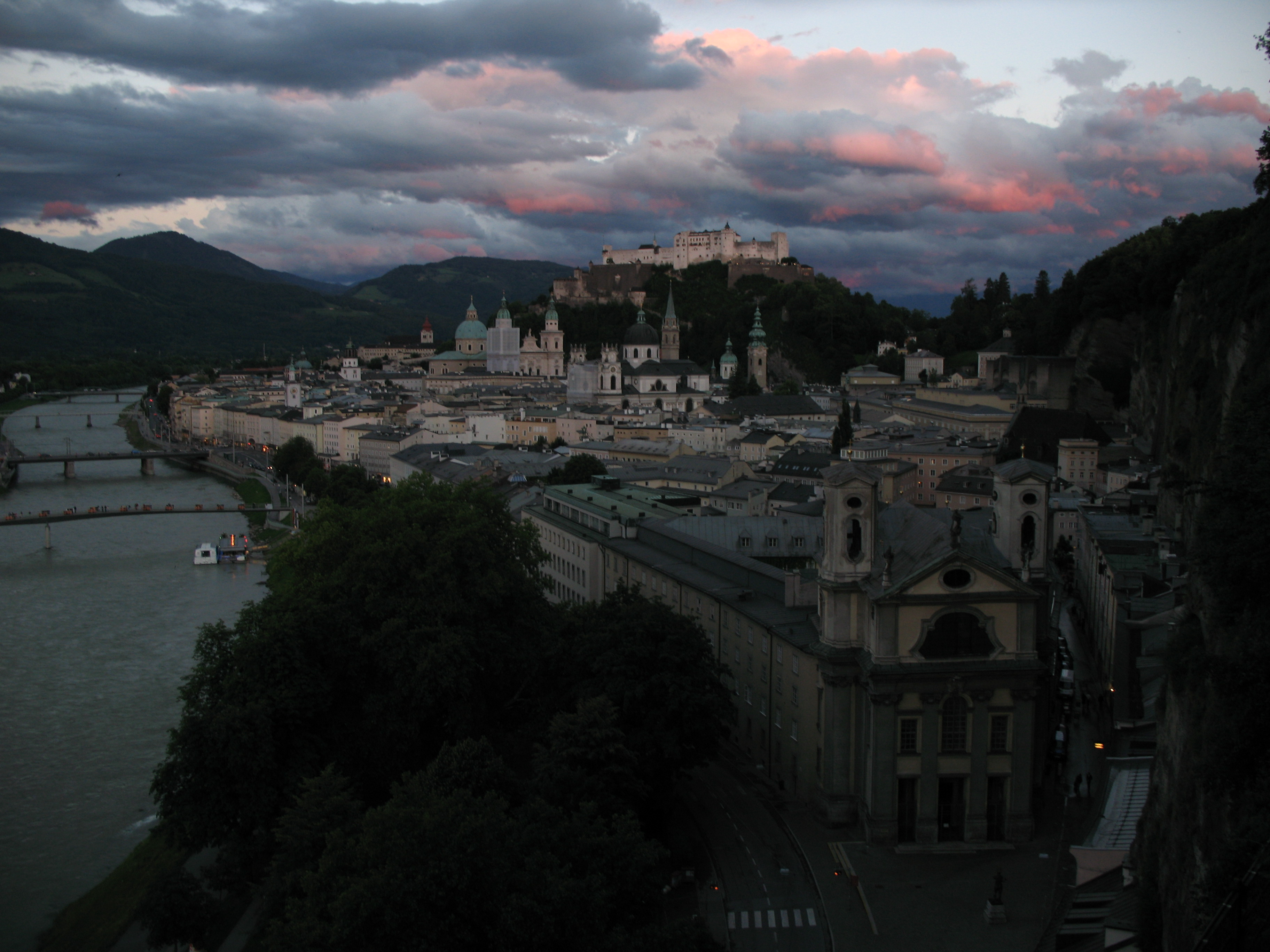 View from Monk Hill, Salzburg, Austria